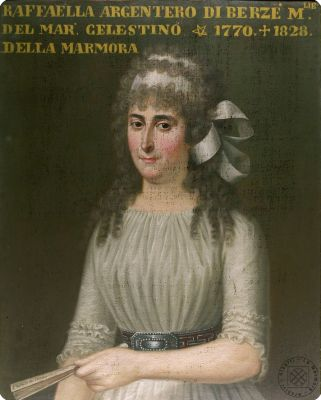 Raffaella Argentero di Bersezio (or Berzé) (1770-1828). Mother of italian general Alfonso La Marmora (1804-1878).